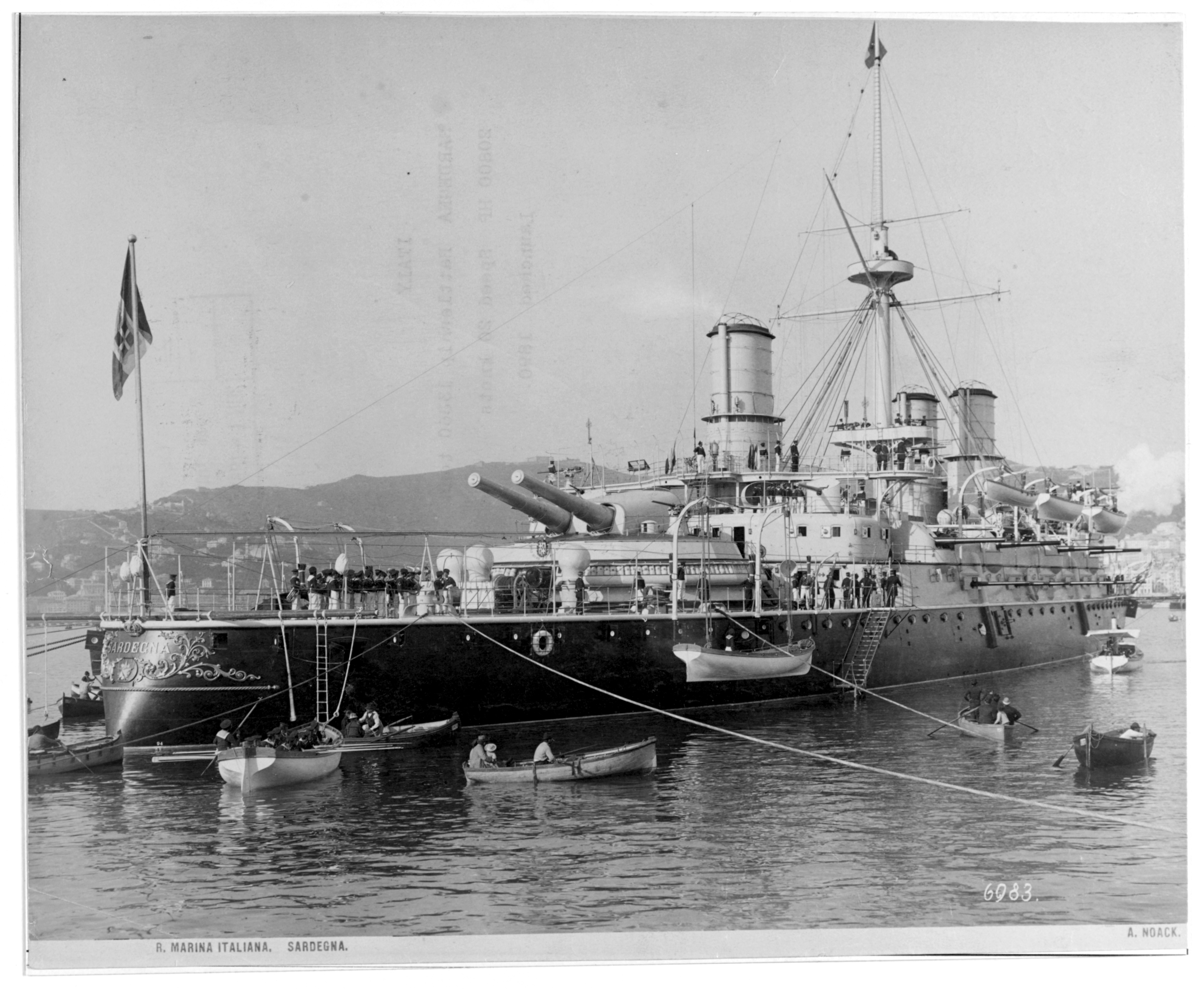 Title: SARDEGNA (Italian Battleship) Caption: In commission from 1890 to 1923. Photographed during the 1890s.)